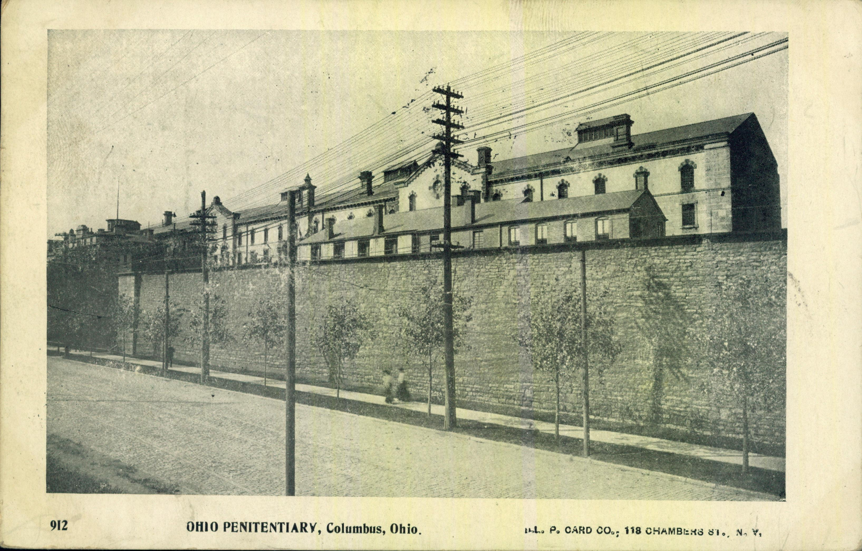 Persistent URL: Subject: Jails; Detention facilities; Prisons; Ohio--Columbus; miami digital collections; bowden postcard collection